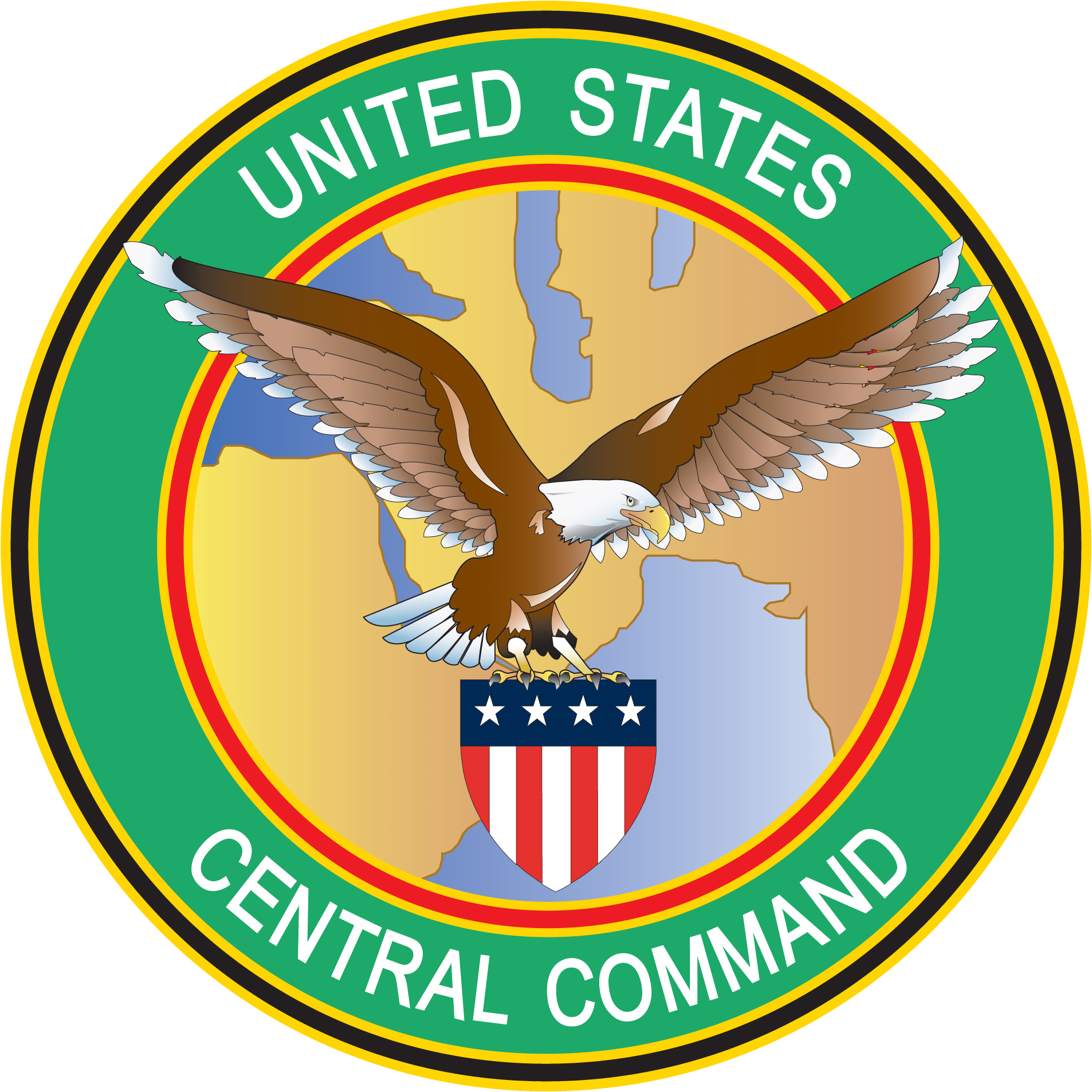 Logo of the United States Central Command (CENTCOM).